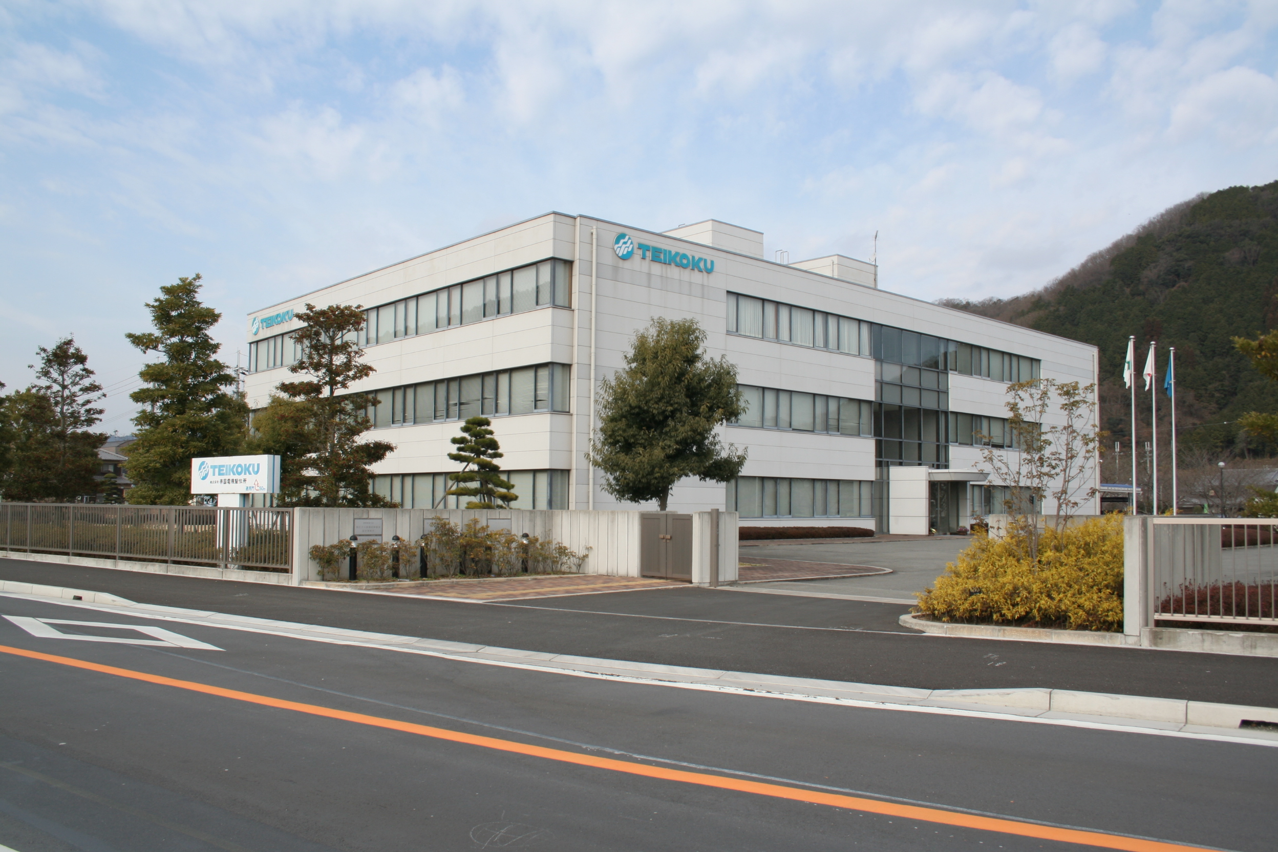 Teikokudenkiseisakujo Headquarters in Tatsuno city,Hyogo,Japan.